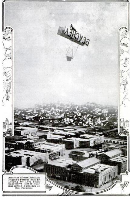 Photograph of aviator Lincoln Beachey flying an inside loop over the San Francisco exposition circa 1913